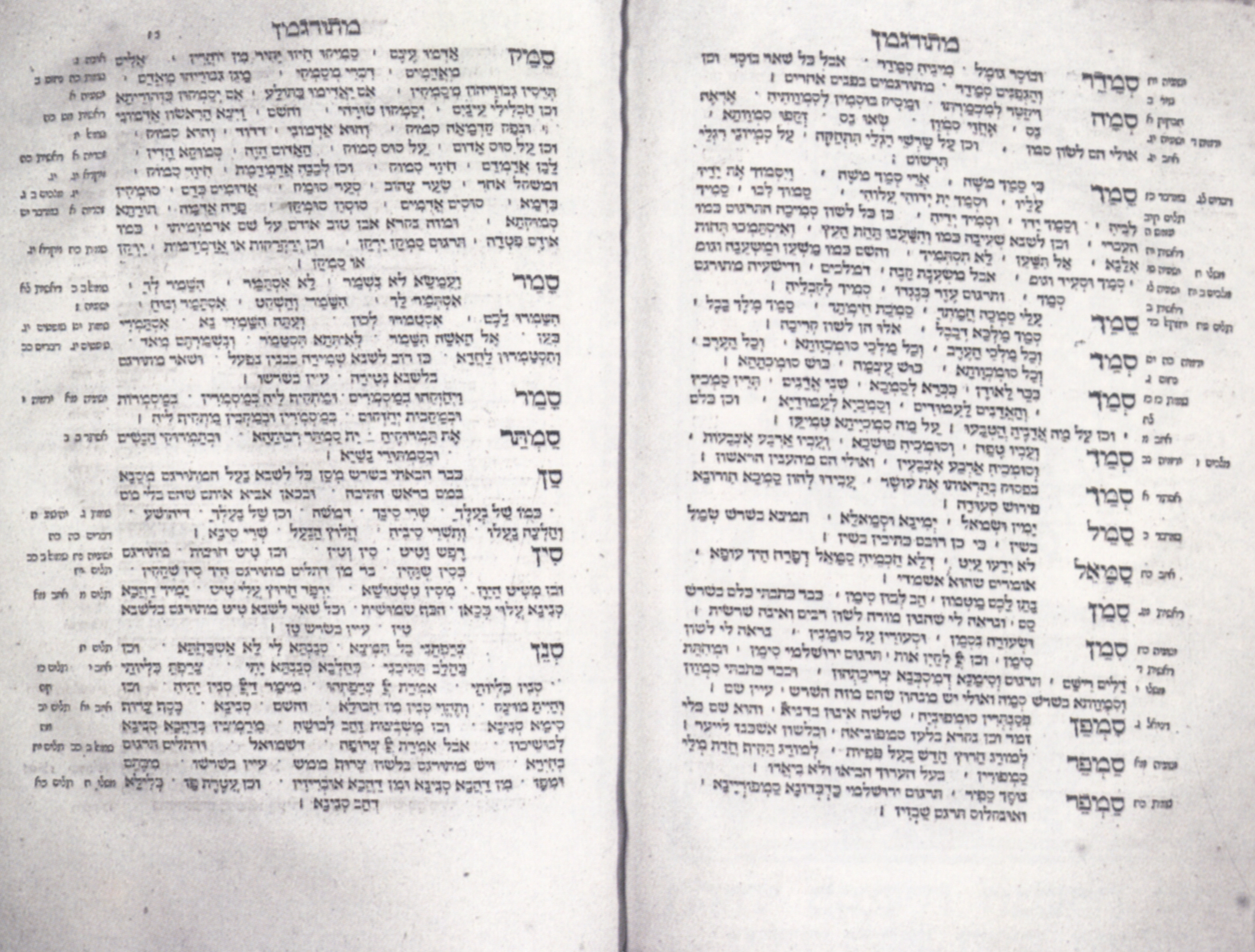 Elias Levita: Meturgeman – Lexicon chaldaicum, Isny, Fagius und Froschesser, 1541 (Prädikantenbibliothek Isny, Theol. 213)